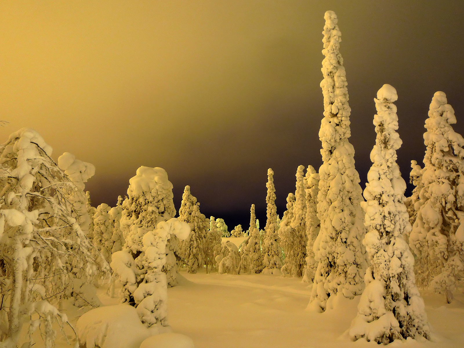 A combination of low clouds, bright lights from the ski slopes and a lot of white snow can produce some weird colours at night. Ruka, Finland